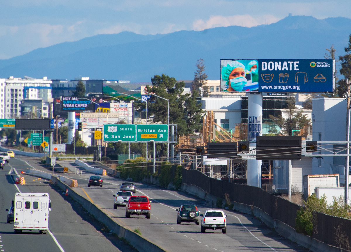 A billboard along U.S. Route 101 in San Carlos displays a San Mateo County message encouraging residents to donate personal protective equipment to healthcare workers to help them safely treat patients with COVID-19.